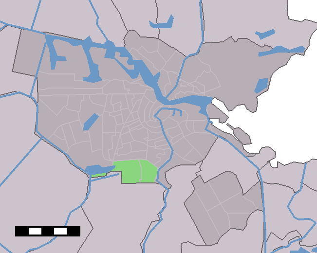 Location of neighbourhoods/districts in Amsterdam